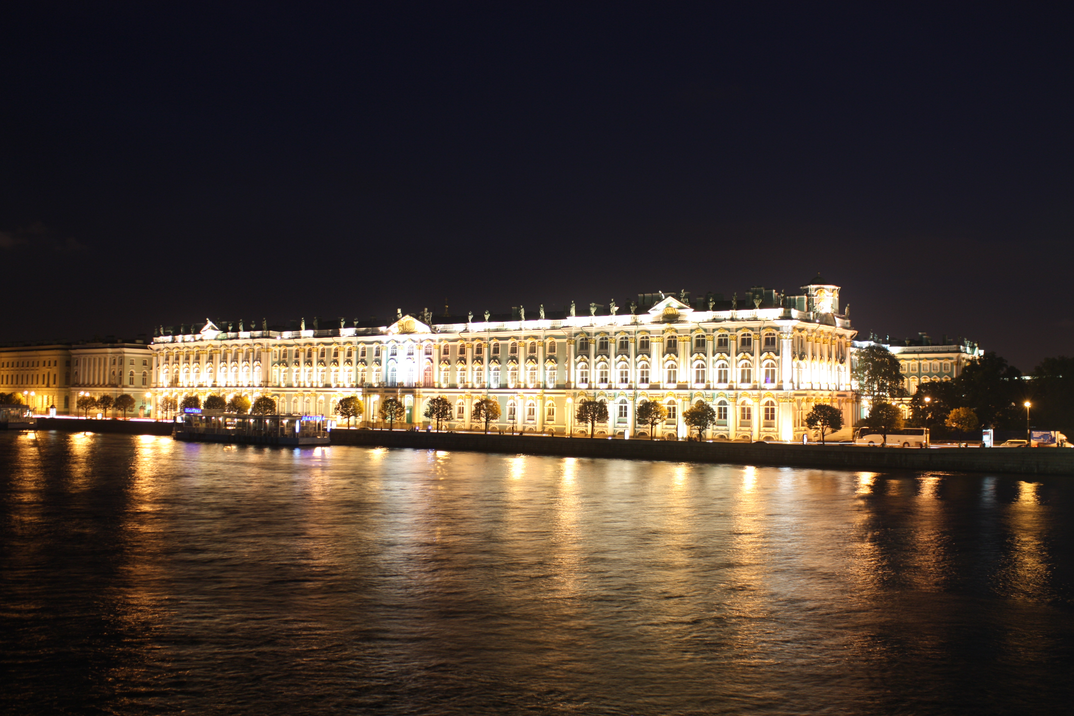 The Winter Palace at night.